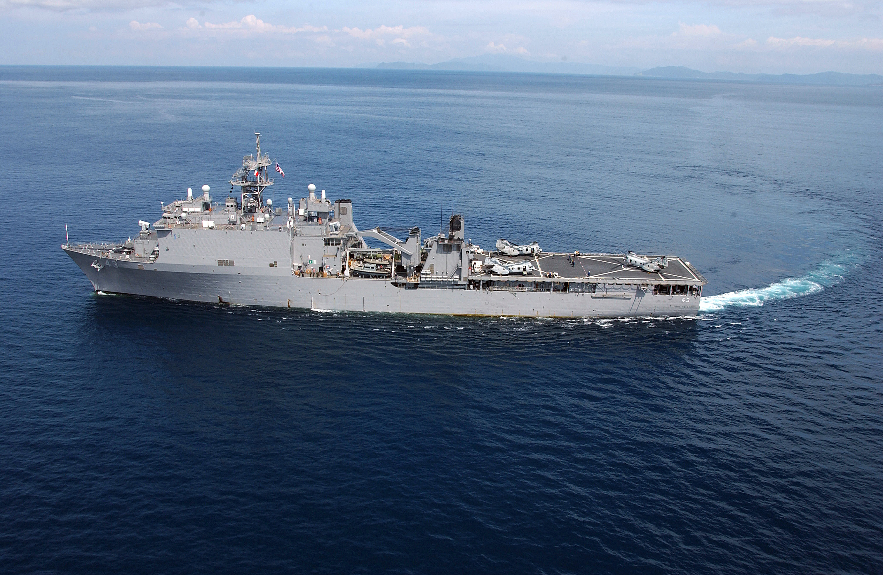 Indian Ocean (Jan. 17, 2005) – The amphibious dock landing ship USS Fort McHenry (LSD 43) makes a wide turn prior to conducting helicopter operations off the coast of the island of Sumatra, Indonesia. Fort McHenry is providing platform support for helicopter operations delivering disaster relief and humanitarian aid supplies in support of Operation Unified Assistance, the humanitarian operation effort in the wake of the Tsunami that struck South East Asia. U.S. Air Force photo by Tech. Sgt. Scott Reed (RELEASED)